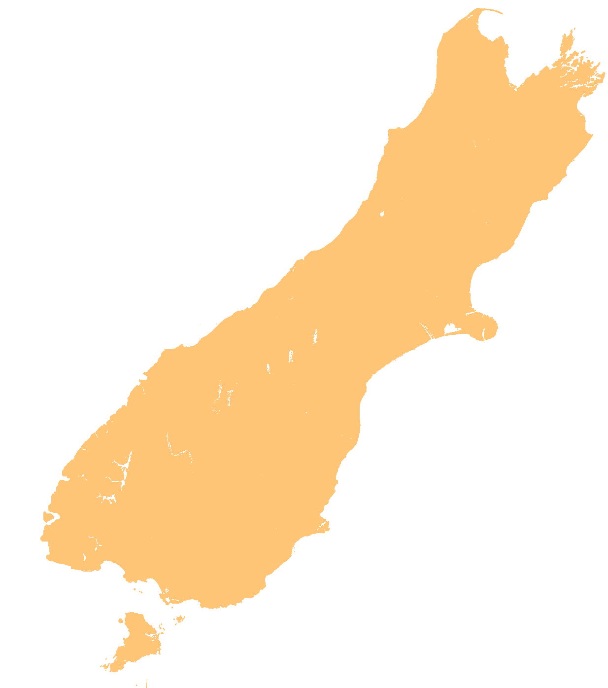 template map of New Zealand's South Island